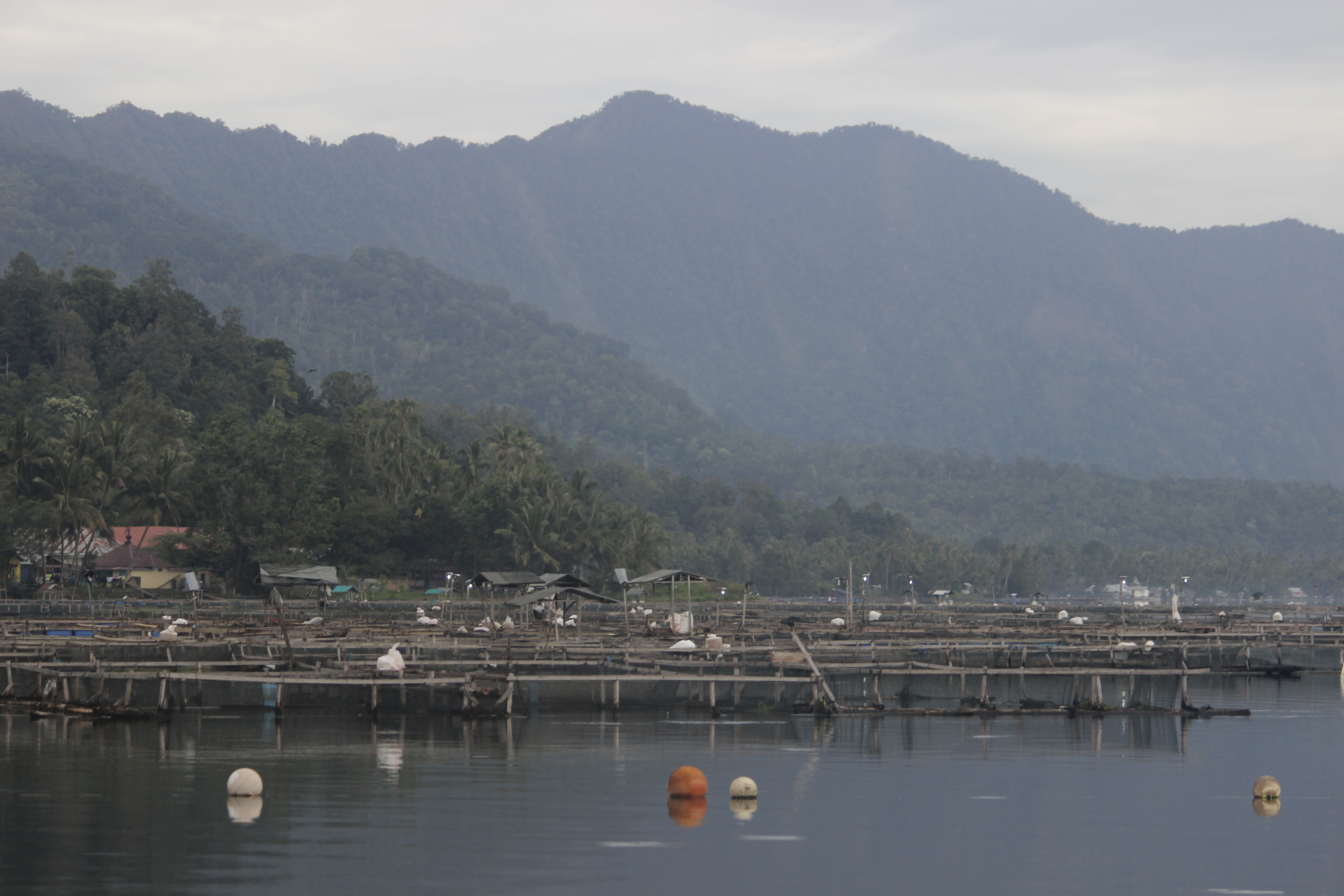 Fish embankment in the coast of Lake Maninjau, Tanjung Raya, Agam regency, West Sumatra.